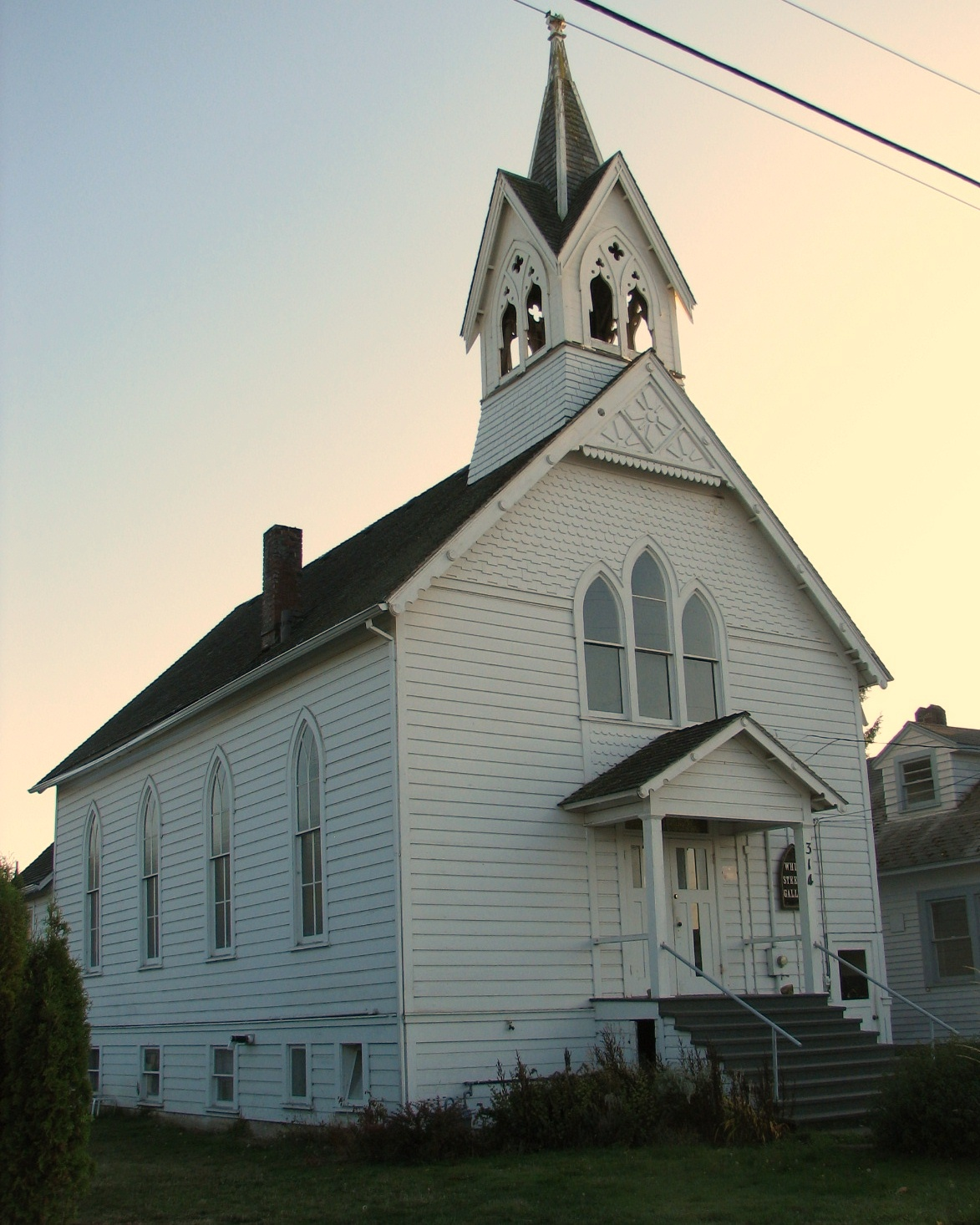 The historic Calvary Lutheran Church and Parsonage (built 1891, remodeled 1926-1927), located at 310-314 Jersey Street in Silverton, Oregon, United States, is listed on the US National Register of Historic Places. It is no longer in active use as a church.